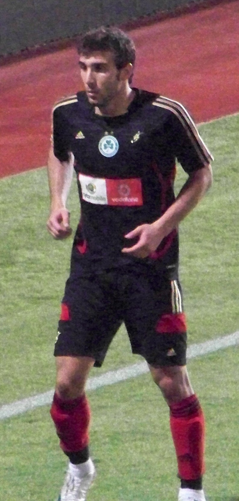 Georgios Efrem vs Catania